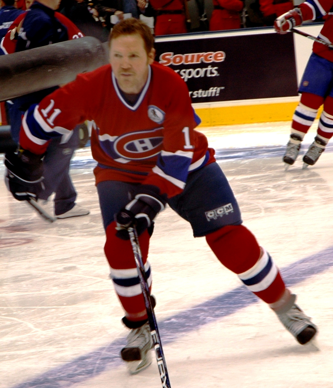 Gary_Leeman played with Montreal Canadiens Alumni at the Legends Clasic in Toronto